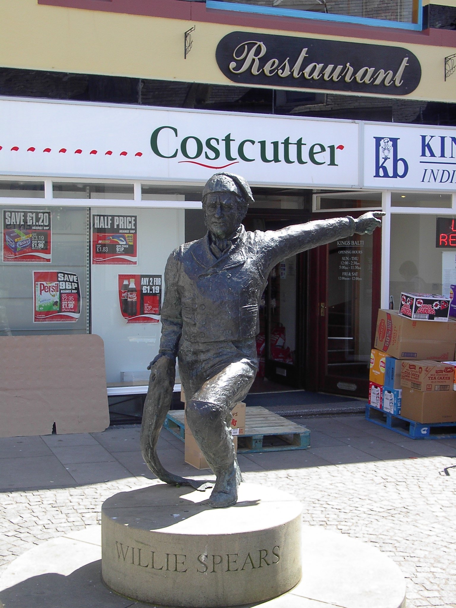 Bronze statue of William Spears (1812 - 1885) located in Eyemouth Market Place.